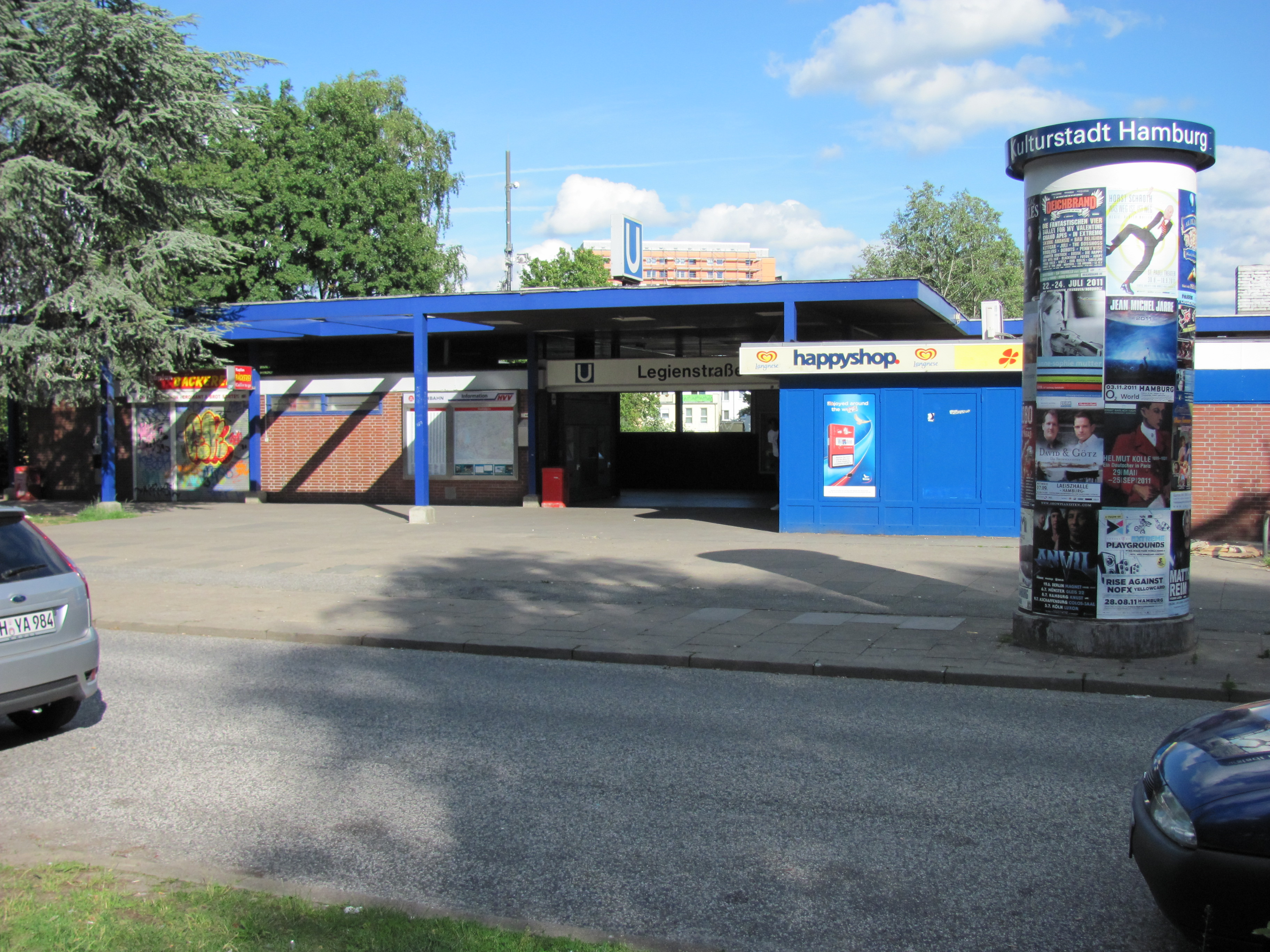 U-Bahn station Legienstraße in Hamburg, Germany